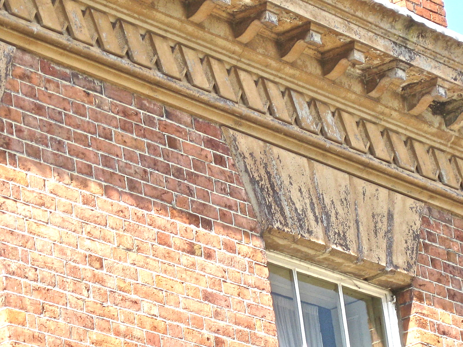 Garthmyl Hall is a Grade II listed house in Berriew, in the historic county of Montgomeryshire, now Powys. Terracotta frieze and consoles below eves